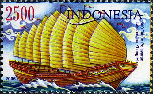 600th Anniversary of Admiral Zheng He's Voyage. Stamps of Indonesia